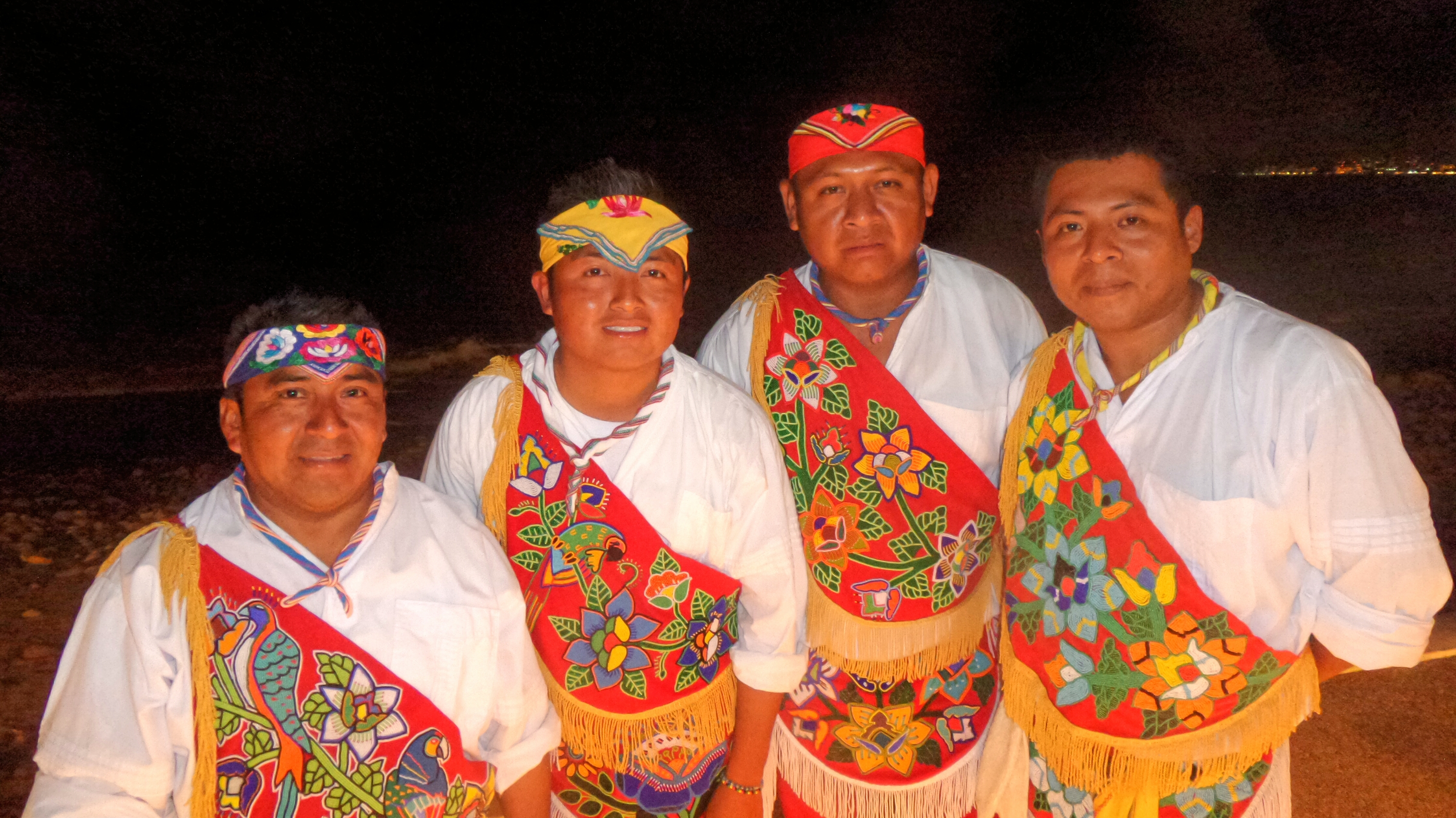 Voladores of Papantla performing in Puerto Vallarta, Jalisco, Mexico - February 2016